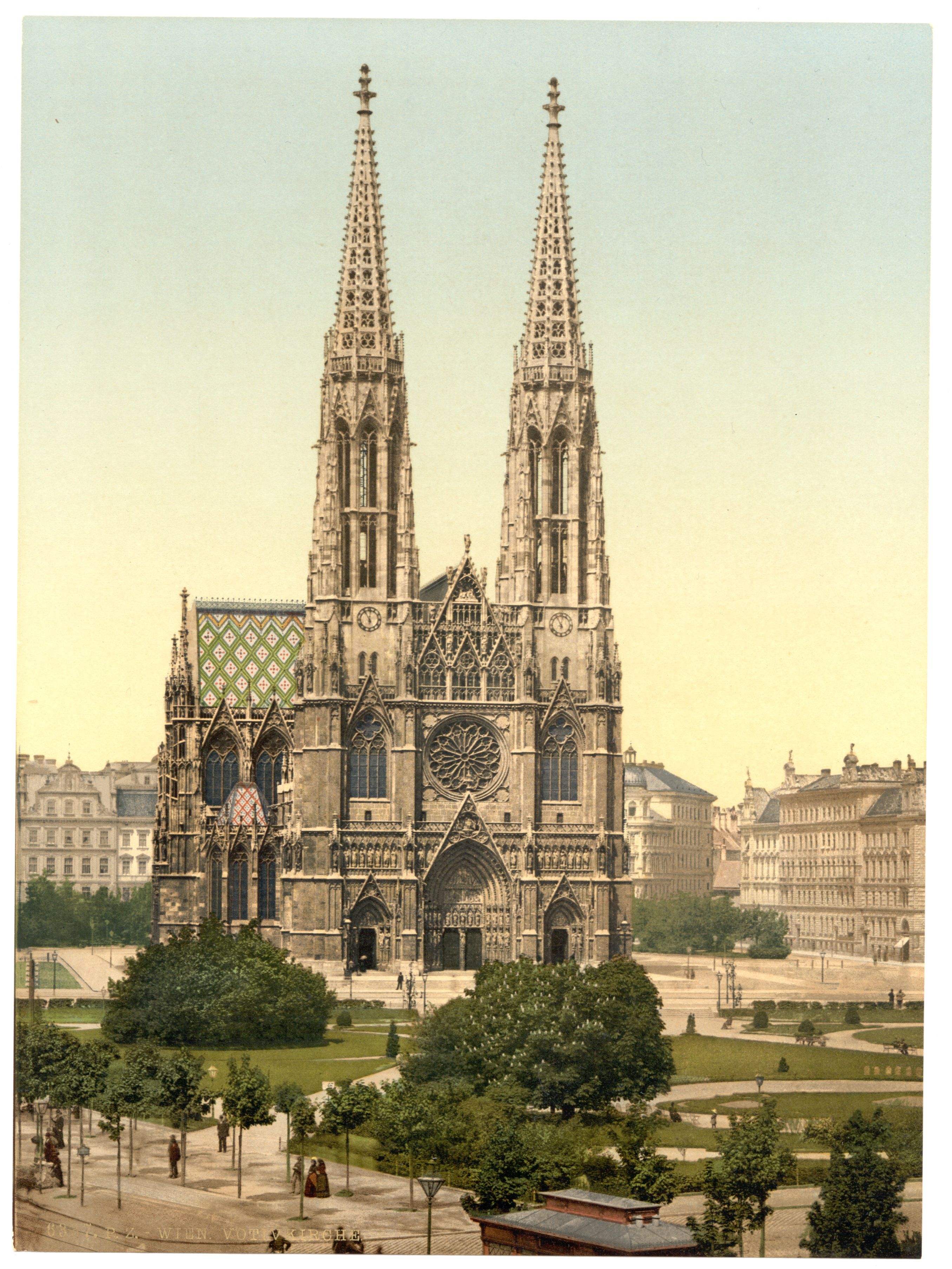 Print no. "6337".; Forms part of: Views of the Austro-Hungarian Empire in the Photochrom print collection.; Title from the Detroit Publishing Co., Catalogue J-foreign section, Detroit, Mich. : Detroit Publishing Company, 1905.